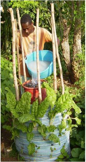 Greywater towers in Arba Minch, Ethiopia (source: Wudneh Ayele Shewa)